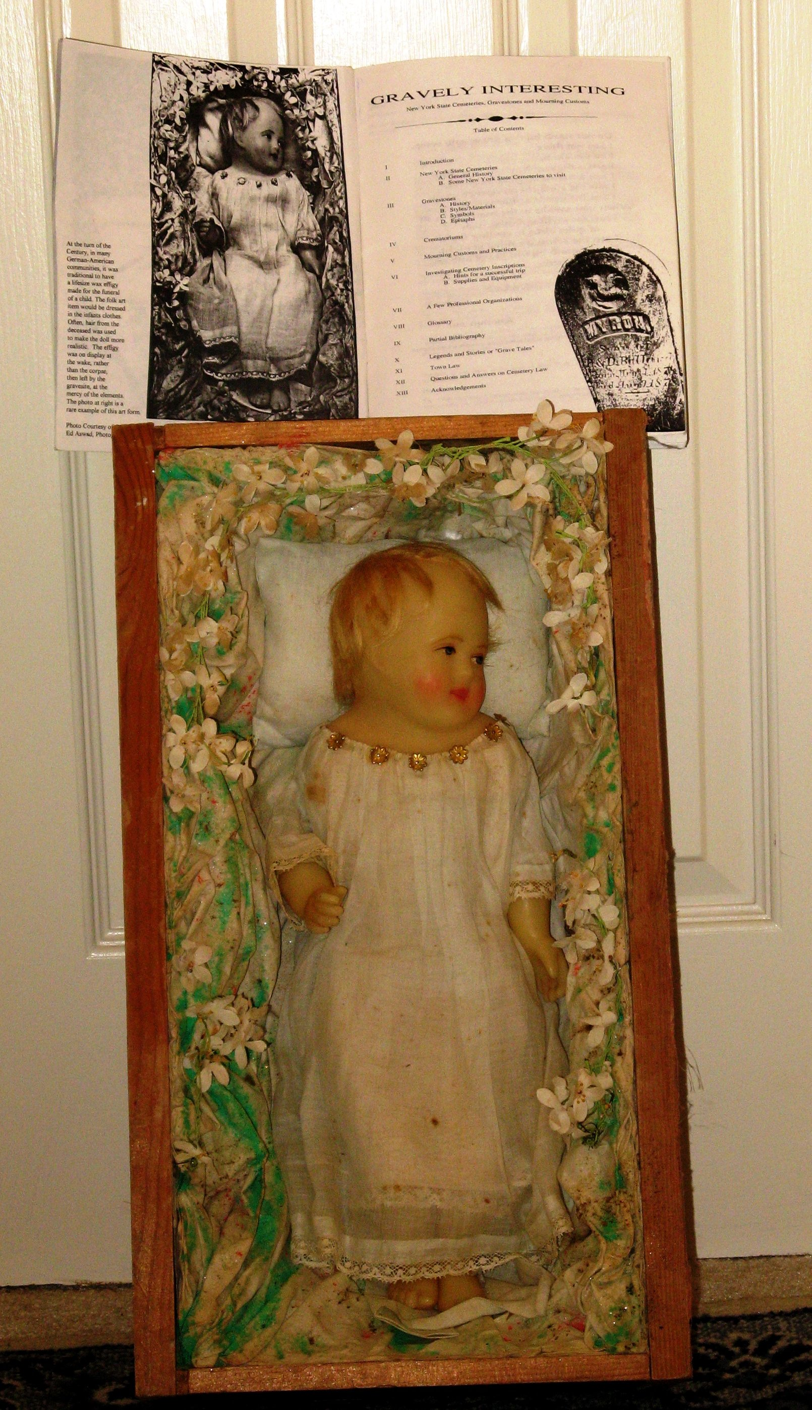 Wax grave doll circa 1860. Hair on the doll would have been taken from the body of the deceased.